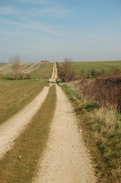 Over the hill. So nice and peaceful, yet just over the hill is the main A1 trunk road.